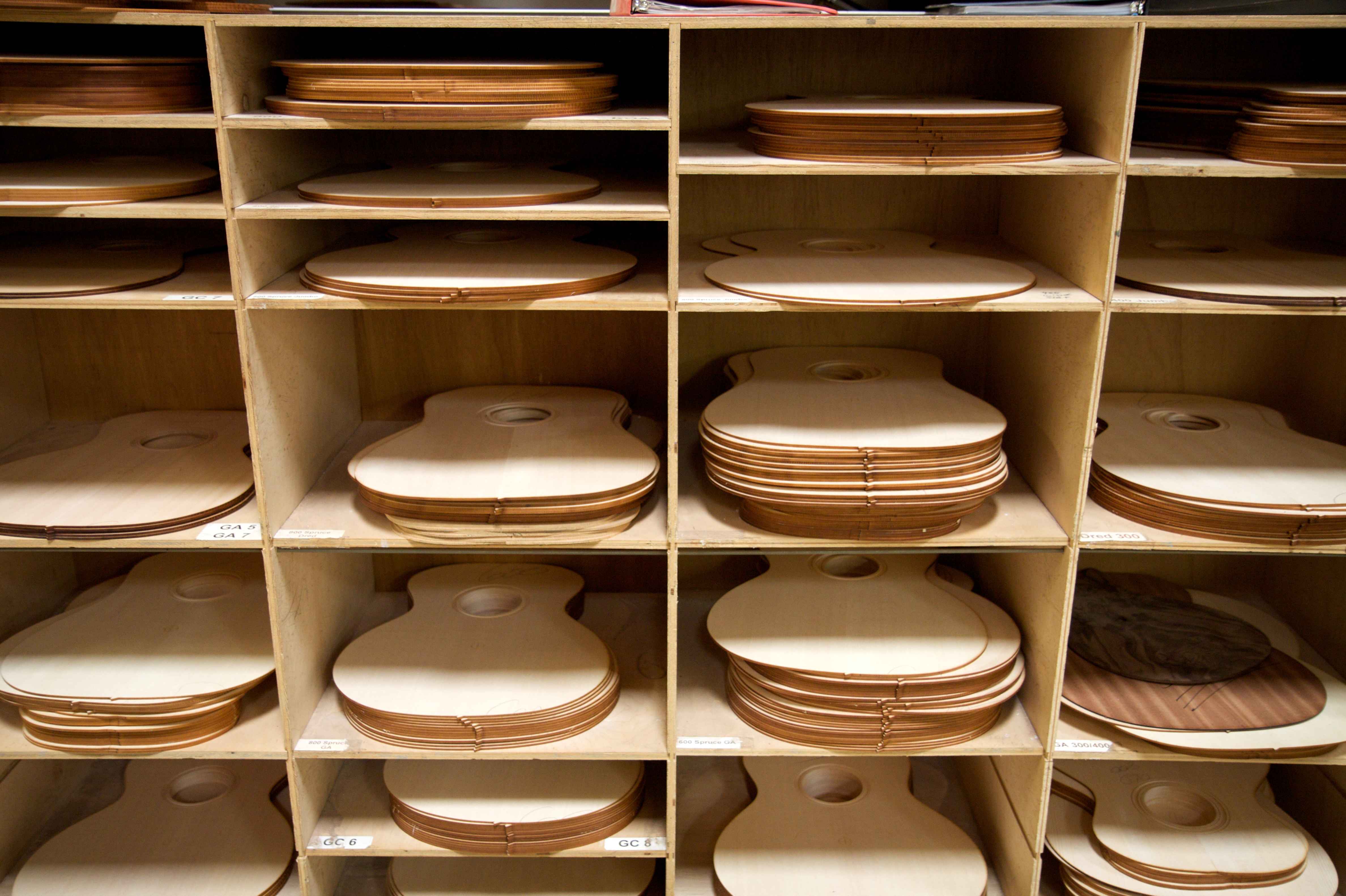 TGFT14 body top - Taylor Guitar Factory